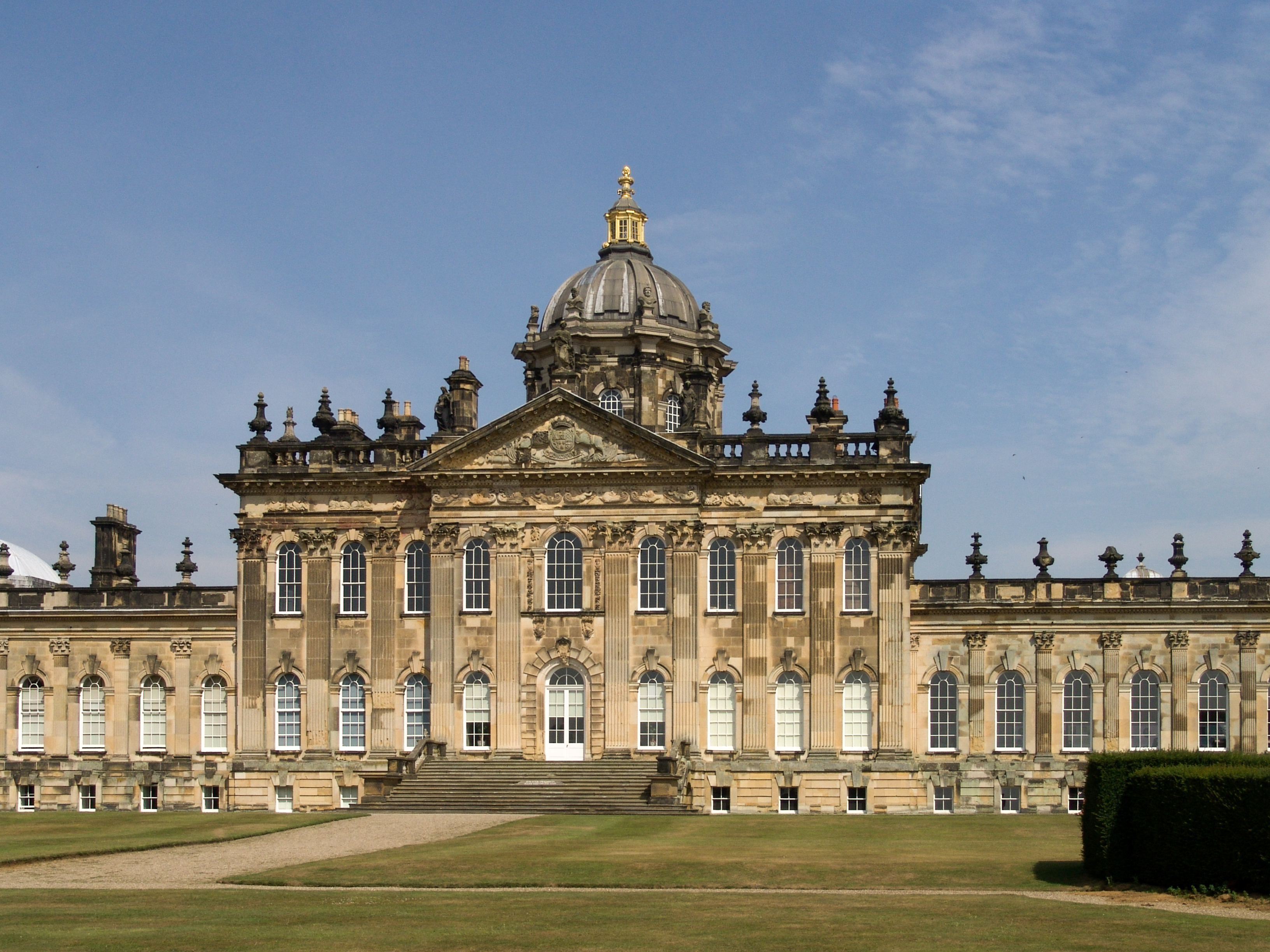 Castle Howard